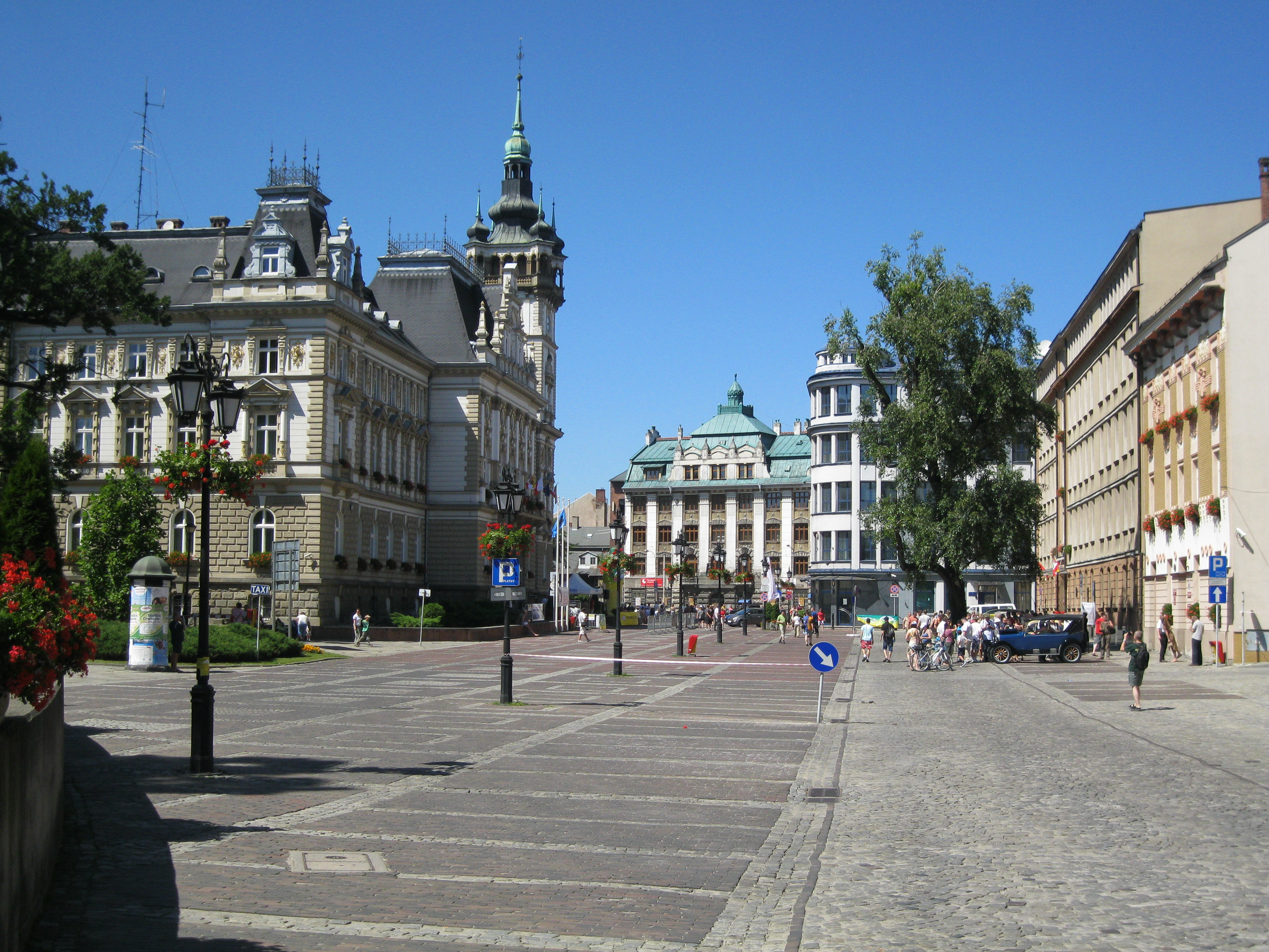 City Hall Square in Bielsko-Biala